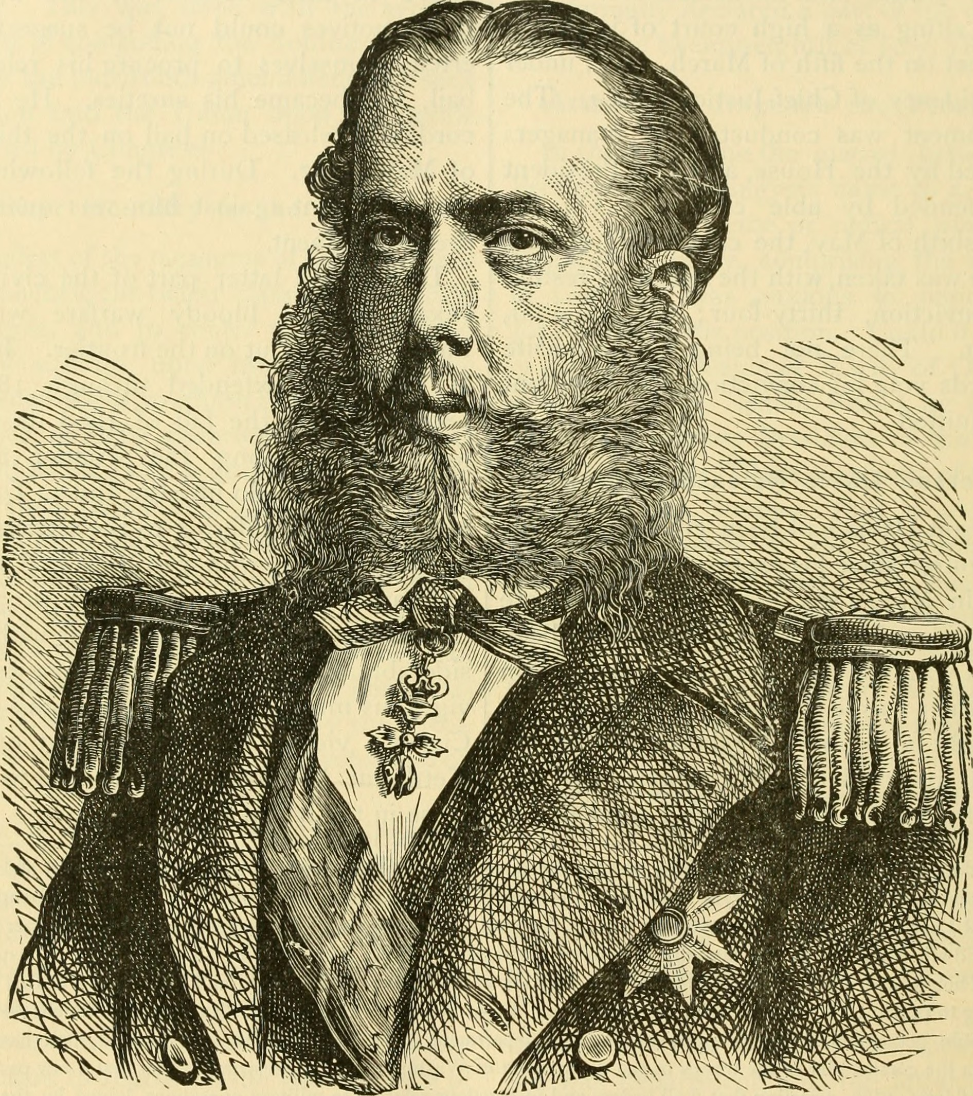 Emperor Maximilian I of Mexico